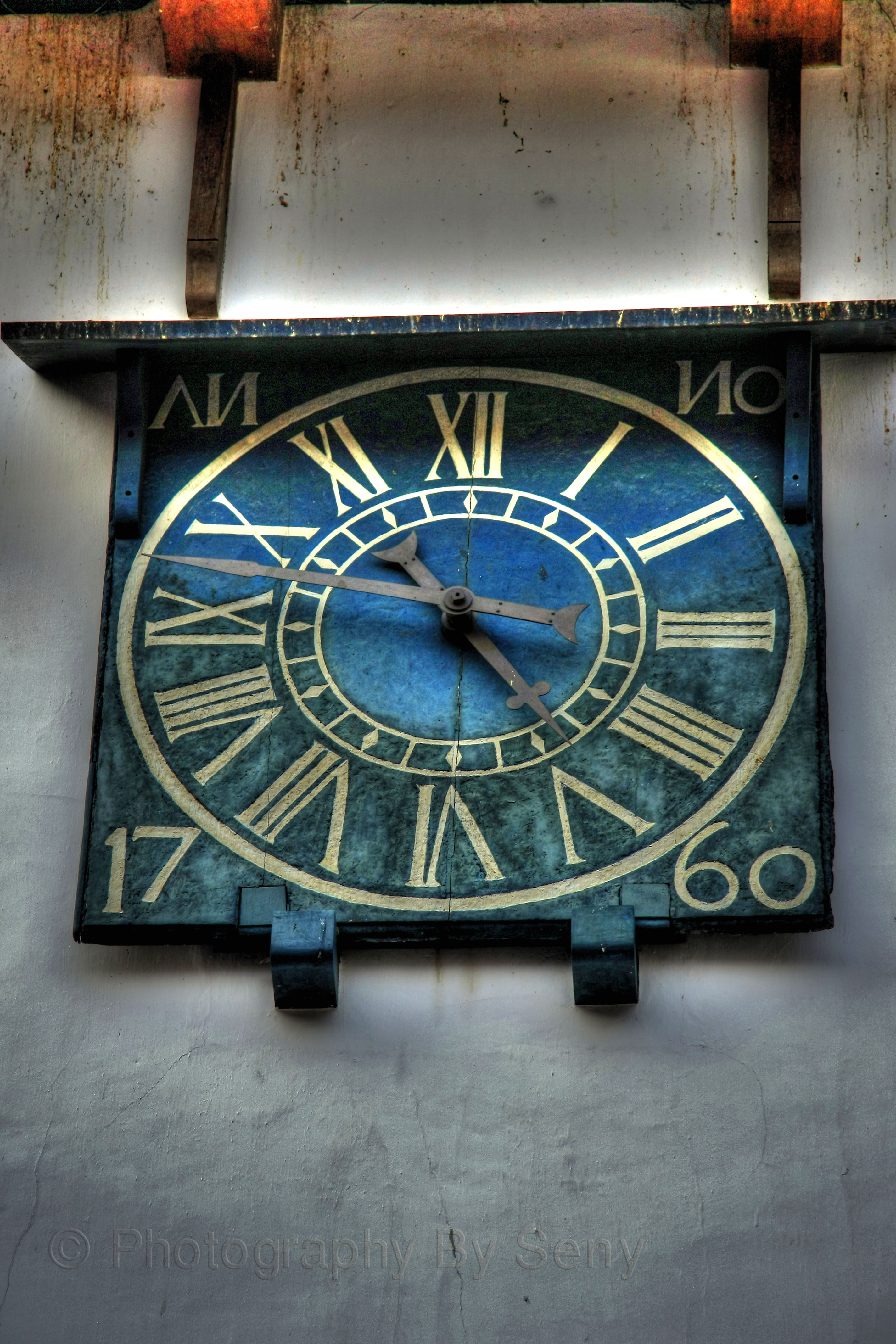 The clock near synagouge in Mattancheri. Built by Jews in 1760.